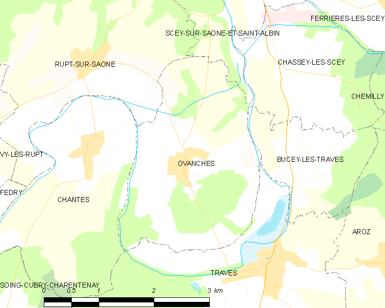 Map of French municipality